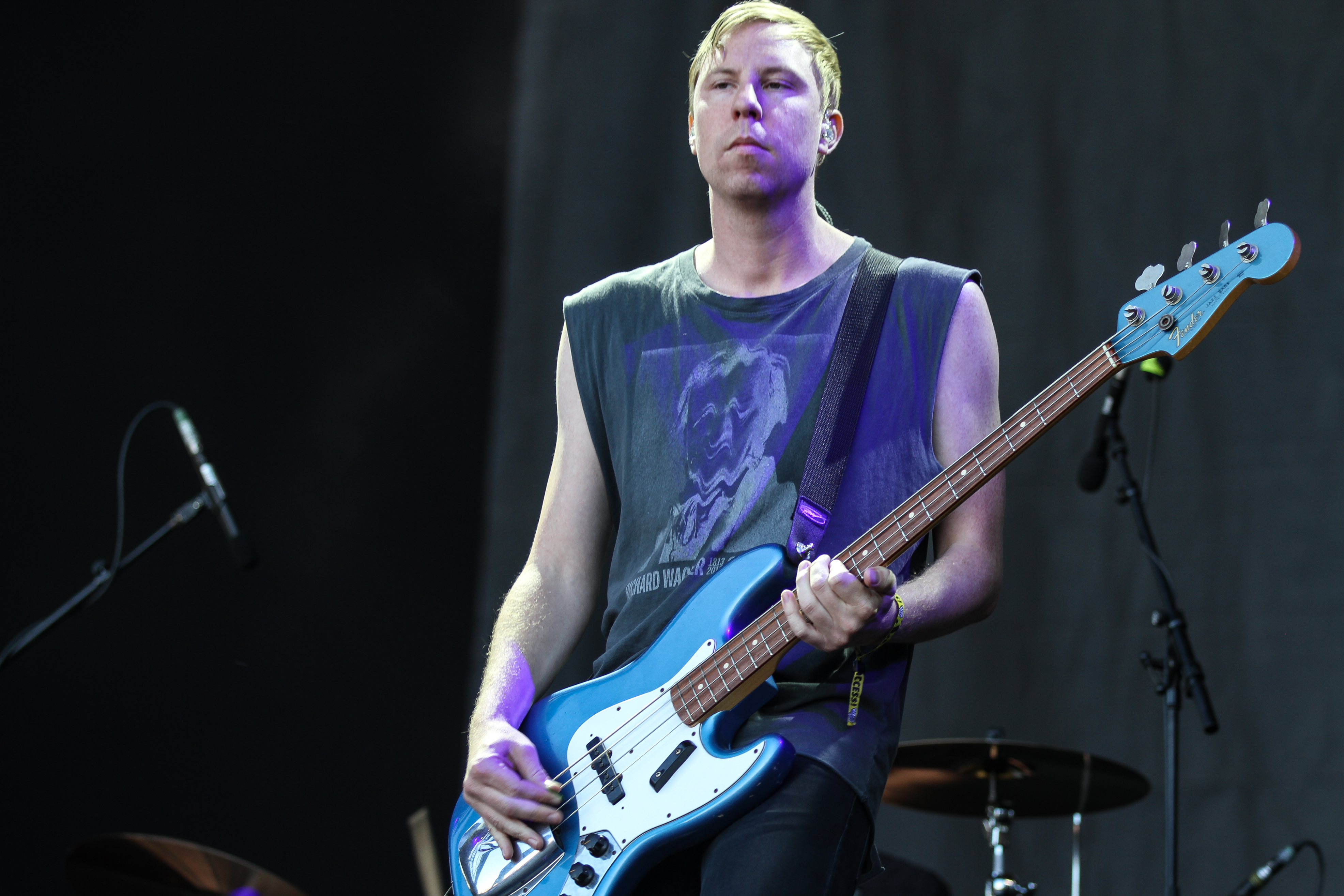 The Sounds performing at Berlin Festival 2013